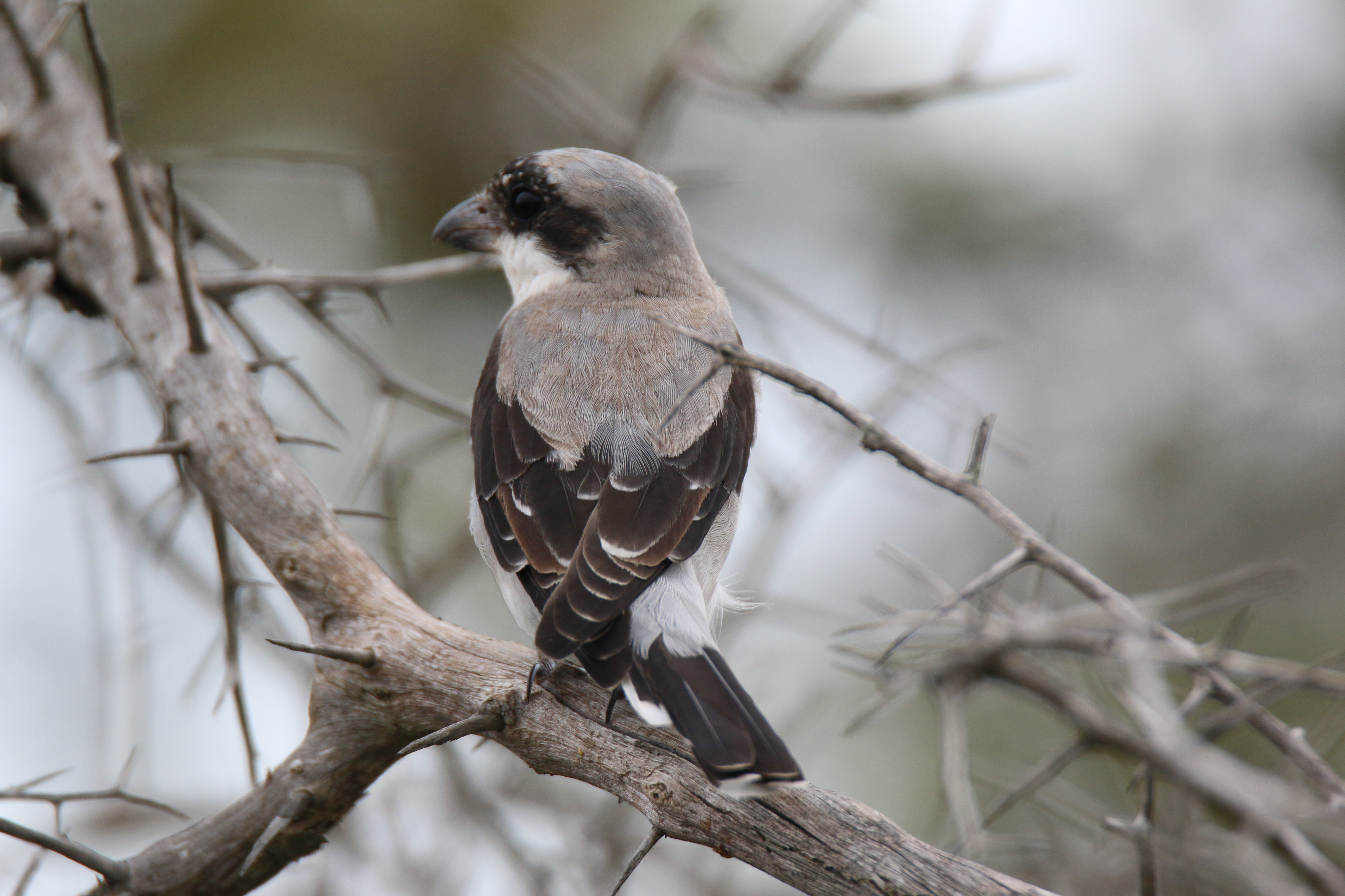 A Lesser Grey Shrike in Kruger National Park, South Africa.